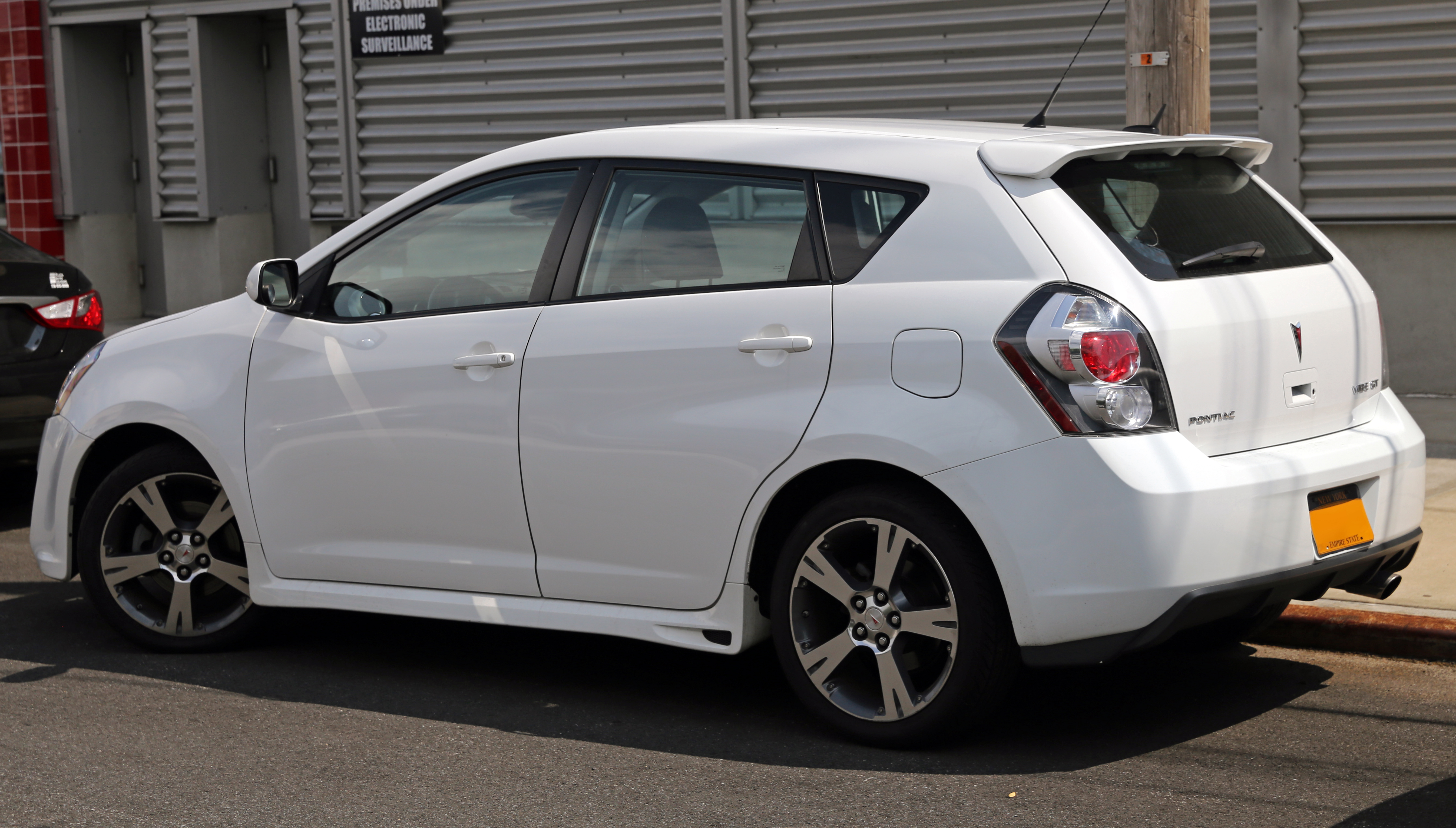 A 2010 Pontiac Vibe GT. This model has the 158hp 2.4 litre 2AZ-FE engine as also used in the Camry.